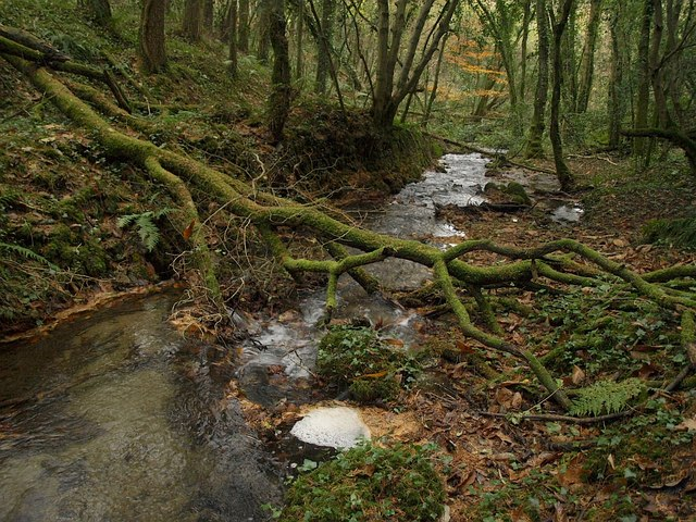 Tributary of Milton Brook The stream descends through a wood. A few metres up the slope is Buckland Monachorum Footpath 5, one of those footpaths that doesn't actually go (or, more correctly, arrive) anywhere.